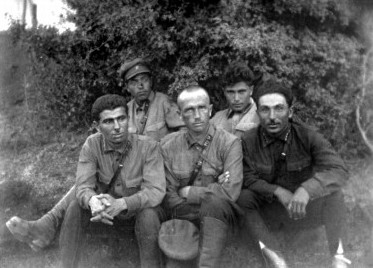 Abdurahman Fatalibeyli in Sovet army